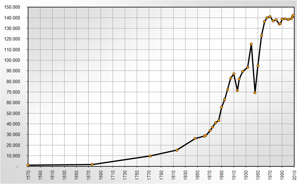 Population of Darmstadt, Germany - 1570-2008